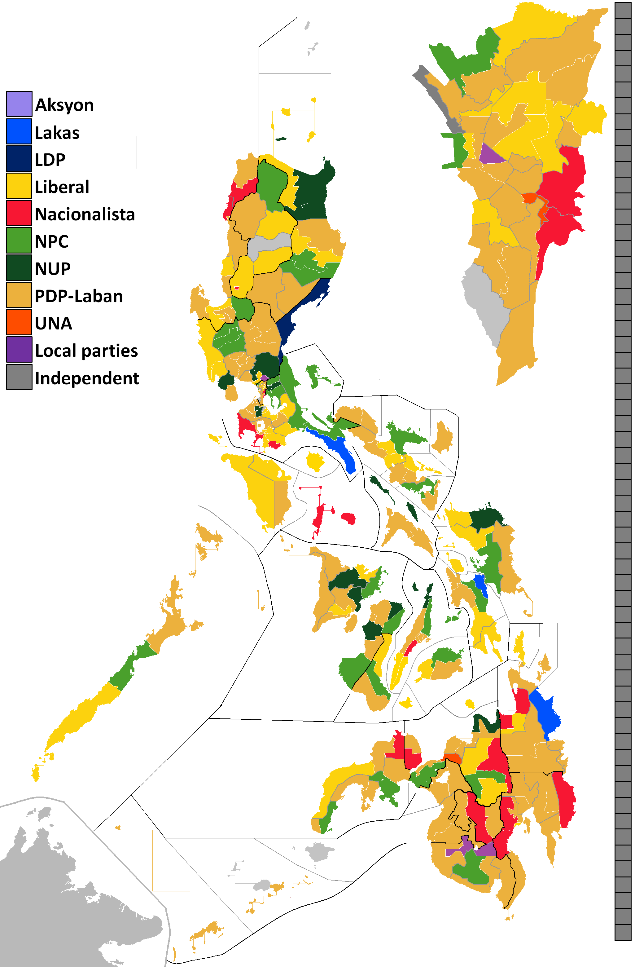 Parties that hold the seats in each legislative district and party-list in the 17th Congress of the Philippines in the House of Representatives.